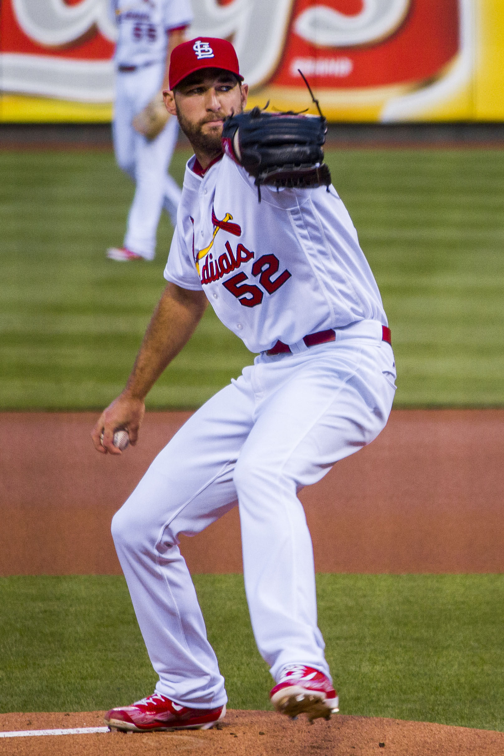 Cardinal Hurler Michael Wacha in 2017.